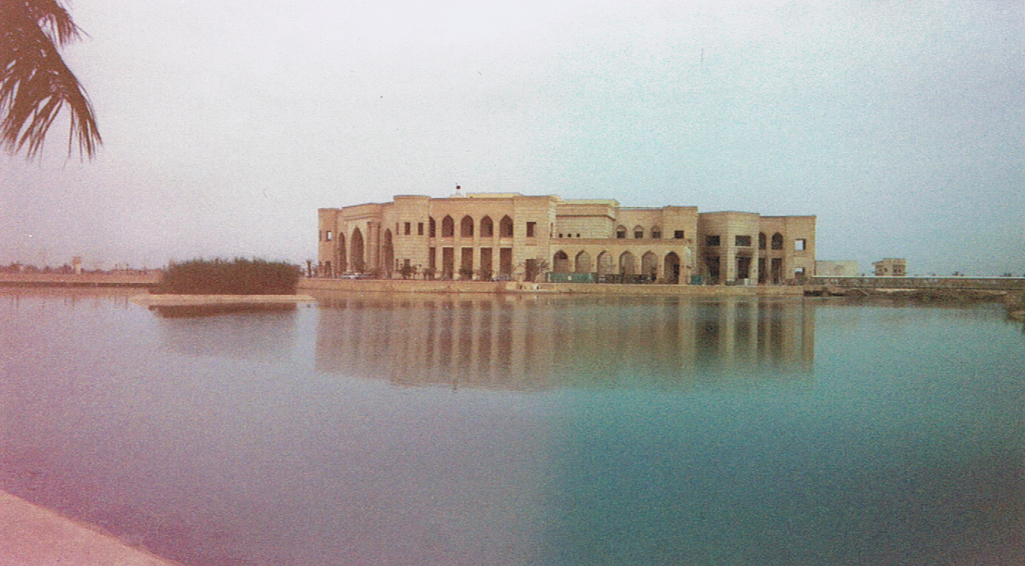 The Al Faw Palace in the early morning light; photo was taken from the southeast corner of the pond in which it sits. Picture taken in June 2004.